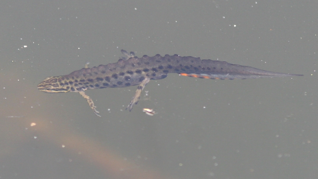 Male Smooth Newt, Lissotriton vulgaris, swimming in pond at The Lodge, Sandy, Bedfordshire